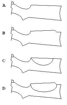 Picture illustrating gunstock combs, including variations with raised cheekpieces and Monte Carlo combs.